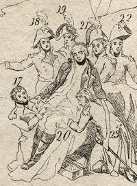 Detail of Descriptive Sketch of the Print of the Death of Gen - Sir Ralph Abercrombie, by Sir Robert Ker Porter (died 1842), published 1804. 17. Surgeon Gillham 18. Col. Abercrombie 19. Col. Murray 20. Genl. Sir Ralph Abercrombie 21. Cap. Sutton A.D.C.